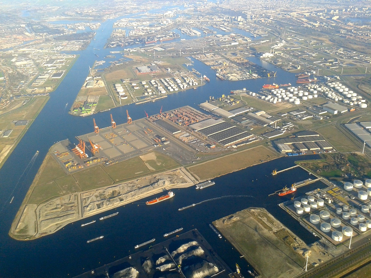 Amsterdam Westpoort, aerial view.